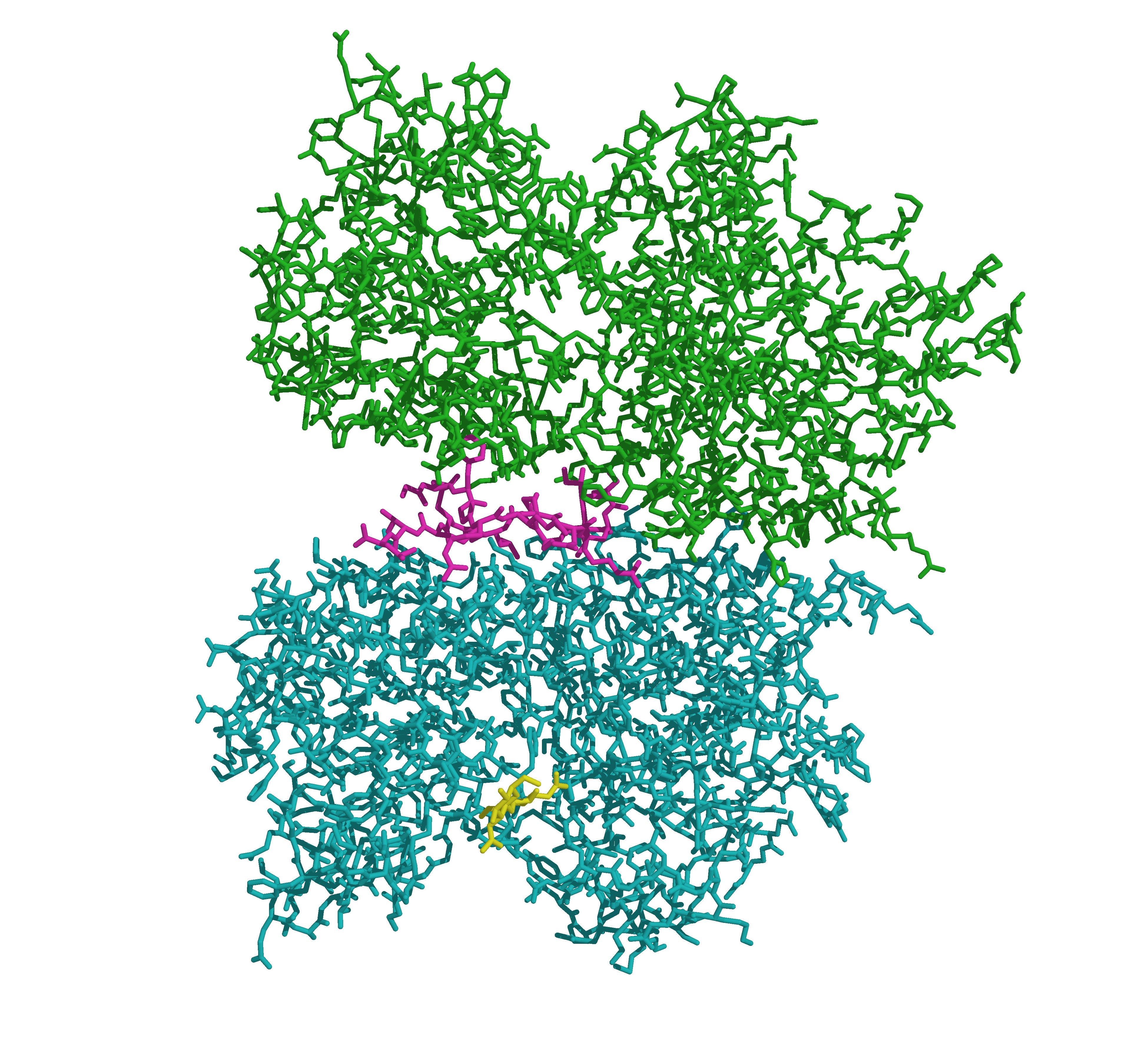 3d structure of natriuretic peptide B (BNP, purple) with ANP-receptor and NAG ligand (yellow) after PDB 1YK1. Ref.: X.L.He et al. (2006). Structural determinants of natriuretic peptide receptor specificity and degeneracy.. J Mol Biol, 361, 698-714. PMID 16870210 [